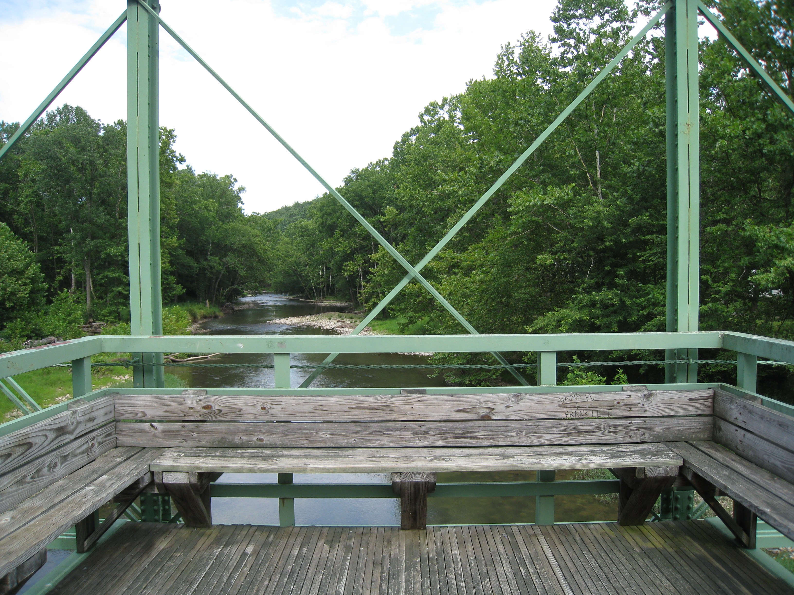 The Old Whipple Truss is an 1874 truss bridge on the Cacapon River at Capon Springs, West Virginia, United States. The Whipple Truss was originally constructed across the South Branch Potomac River near Romney and was re-erected at its present site in 1938 where it was in use until 1991.